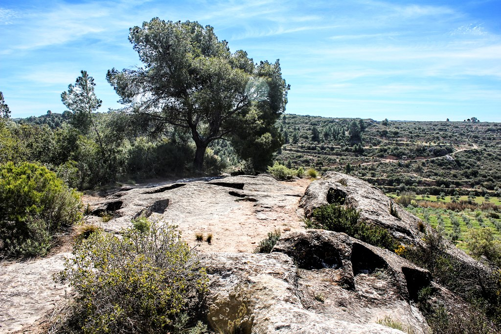 Les tombes del Saladar a prop de les Coves del Cogul